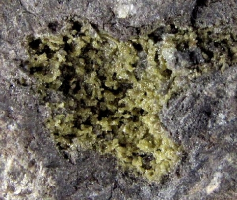 Chlorargyrite, Cerussite, Galena Locality: Oriziba Mine, Tat Momoli area, Casa Grande District, Slate Mts, Tohono O'odham Indian Reservation, Pinal County, Arizona, USA 5.7 x 4.0 x 3.0 cm. A rare and very showy Arizona combination specimen from a less well-known Arizona locale - the Oriziba Mine in Pinal County. A sculptural, 1.5 cm vug is filled with pretty green, waxy lustre, microcrystals of chlorargyite, which is set on a vein of starkly contrasting massive galena. The galena vein runs through a matrix of massive to microcrystalline cerussite. Very rich silver/lead ore here. Seldom available.